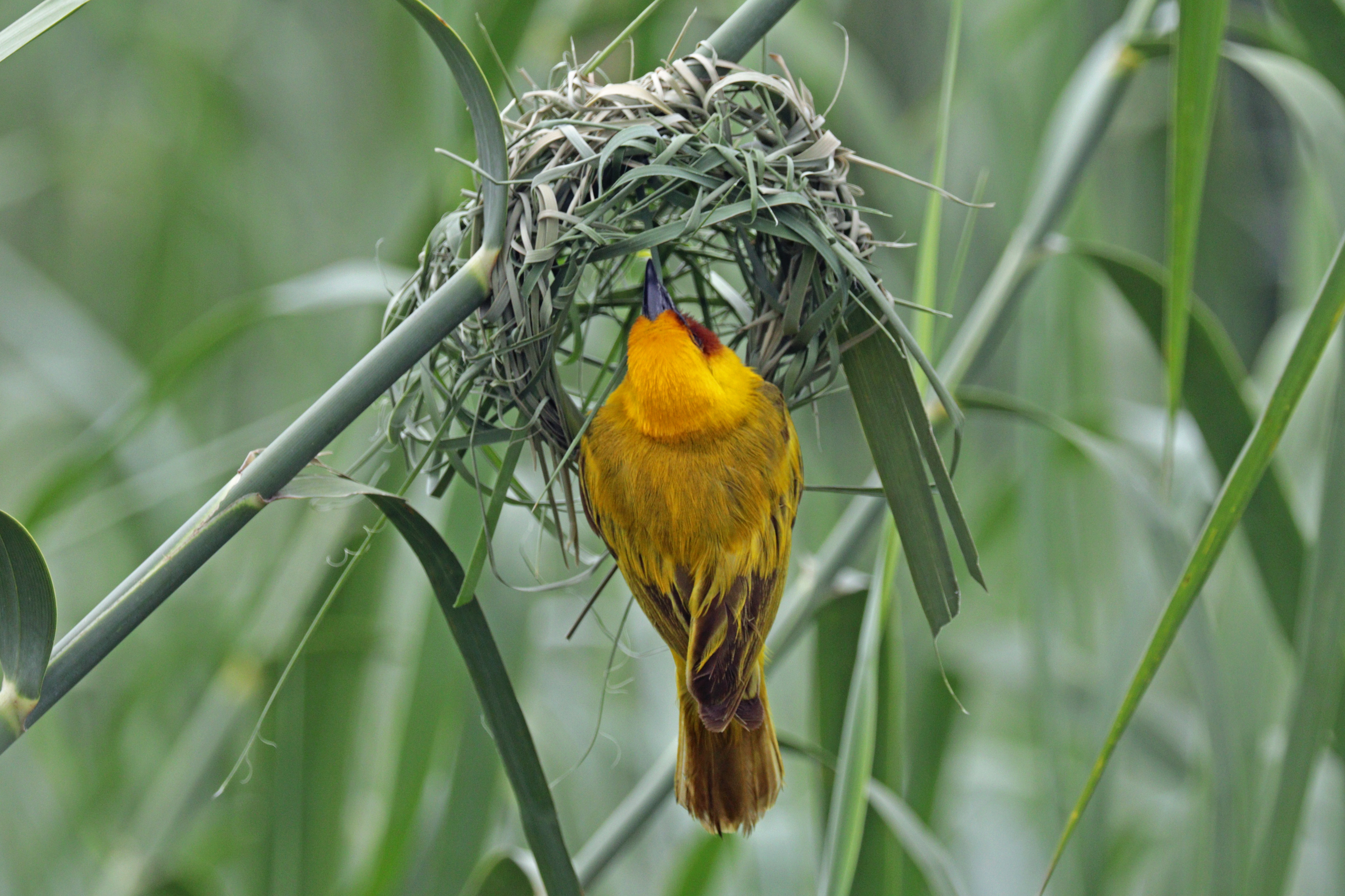 Southern brown-throated weaver (Ploceus xanthopterus castaneigula) male building nest, Divundu, Namibia